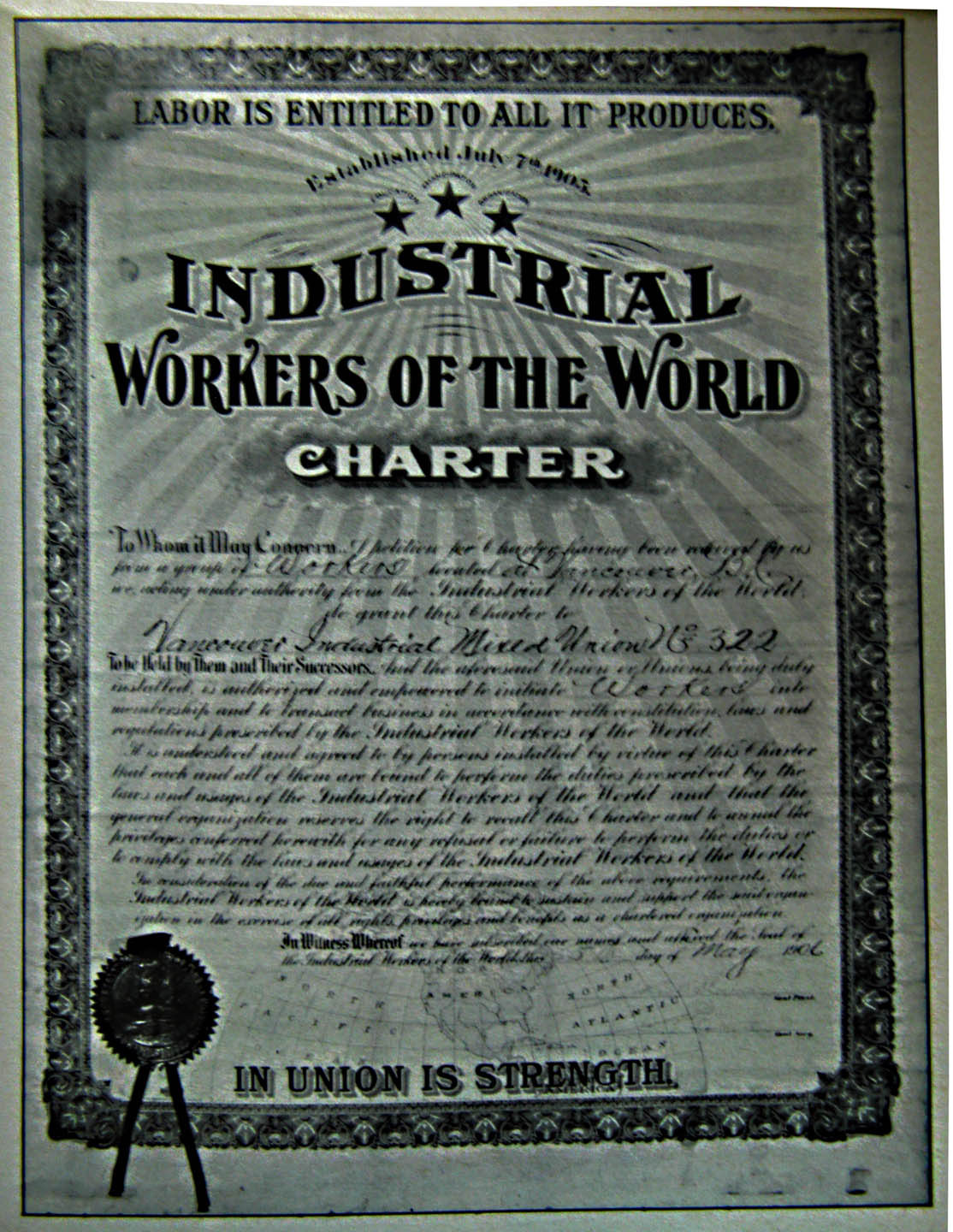 First IWW charter in Canada, 1906